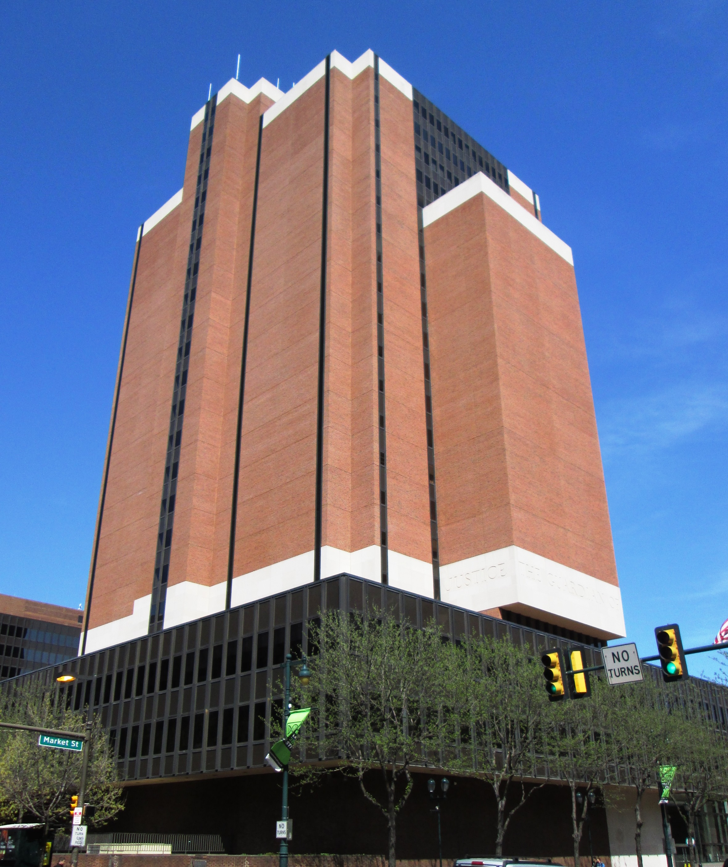 The James A. Byrne United States Courthouse at 601 Market Street between N. 6th and N. 7th Streets, next to Independence Mall in Center City, Philadelphia. The building is named after James A. Byrne, a former Democrat in the U.S. House of Representatives. Along with the adjacent William J. Green, Jr. Federal Building, the Courthouse is part of the largest Federal complex in Philadelphia, with 1.7 million gross square feet. It shares mechanical systems and an underground garage with the Green Building.